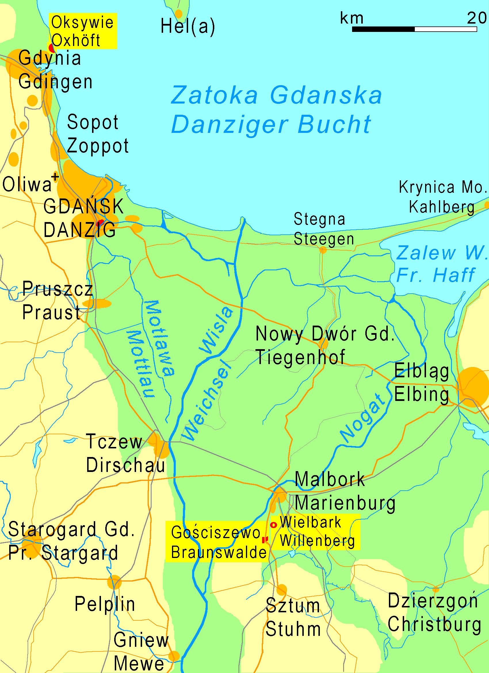 Delta of River Wistula with Polish and German Names.